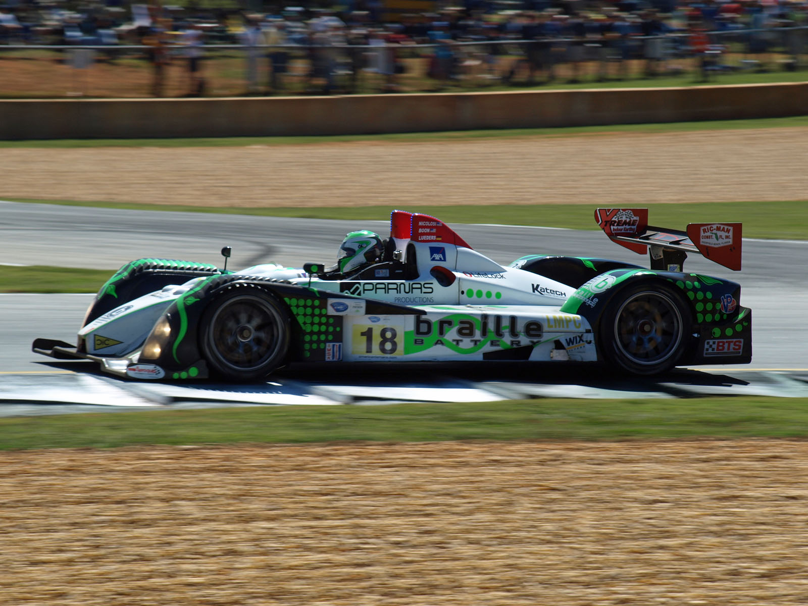 Jan-Dirk Lueders driving the Performance Tech Motorsports Oreca FLM09-Chevrolet in the 2011 Petit Le Mans at Road Atlanta.